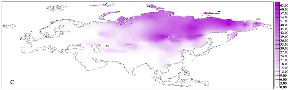 Eurasian frequency distributions of mtDNA haplogroup C.